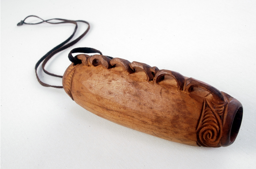 Kōauau. Collection of Museo Azzarini, Universidad Nacional de La Plata.